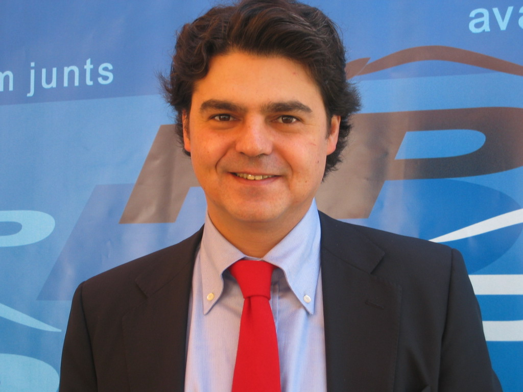 Jorge Moragas